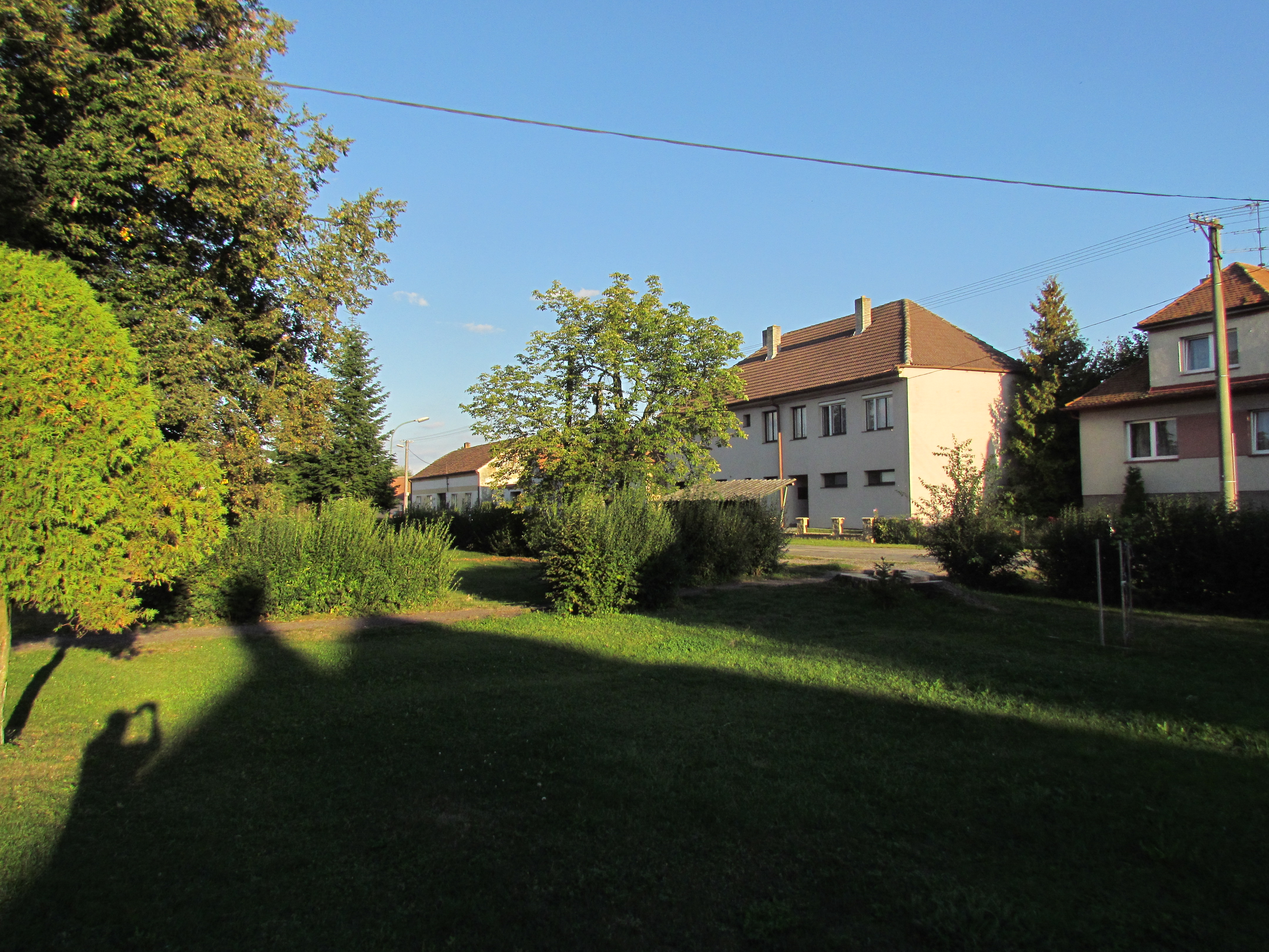 Center of Vesce, Moravské Budějovice, Třebíč District.